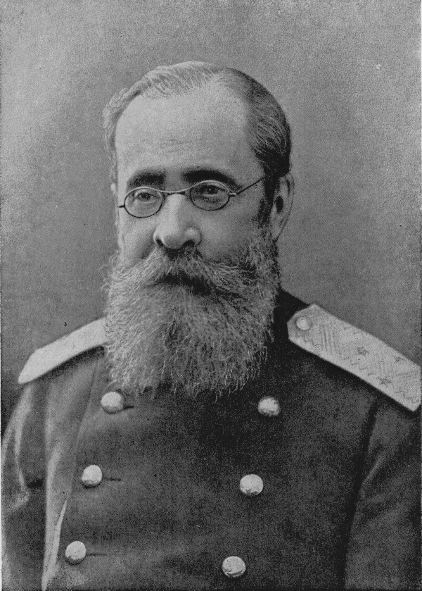 Kyun, Tsezar Antonovich